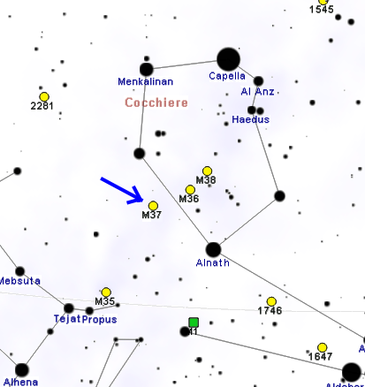 M37